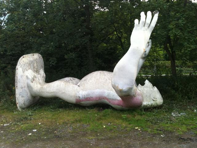 statue of King Kong by Nicholas Monro, at Penrith.